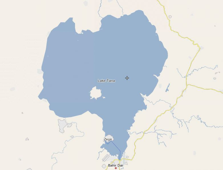 description of Gorgora